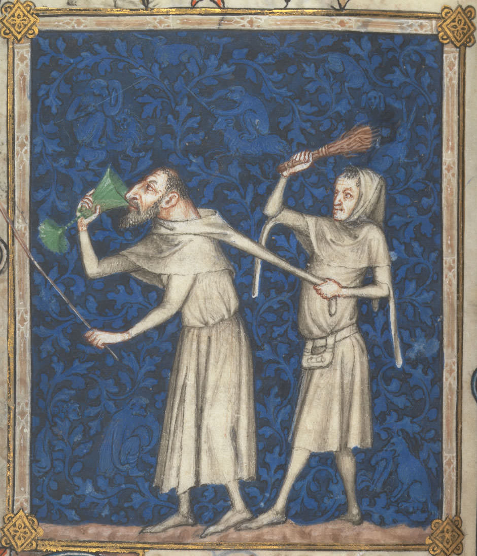 An illustration of Psalm 53 (Psalm 52 in the Vulgate numbering): “The fool says in his heart, ‘There is no God,’” a detail from the Psalter and Hours of Bonne of Luxembourg, circa 1340, in the Metropolitan Museum of Art, New York.